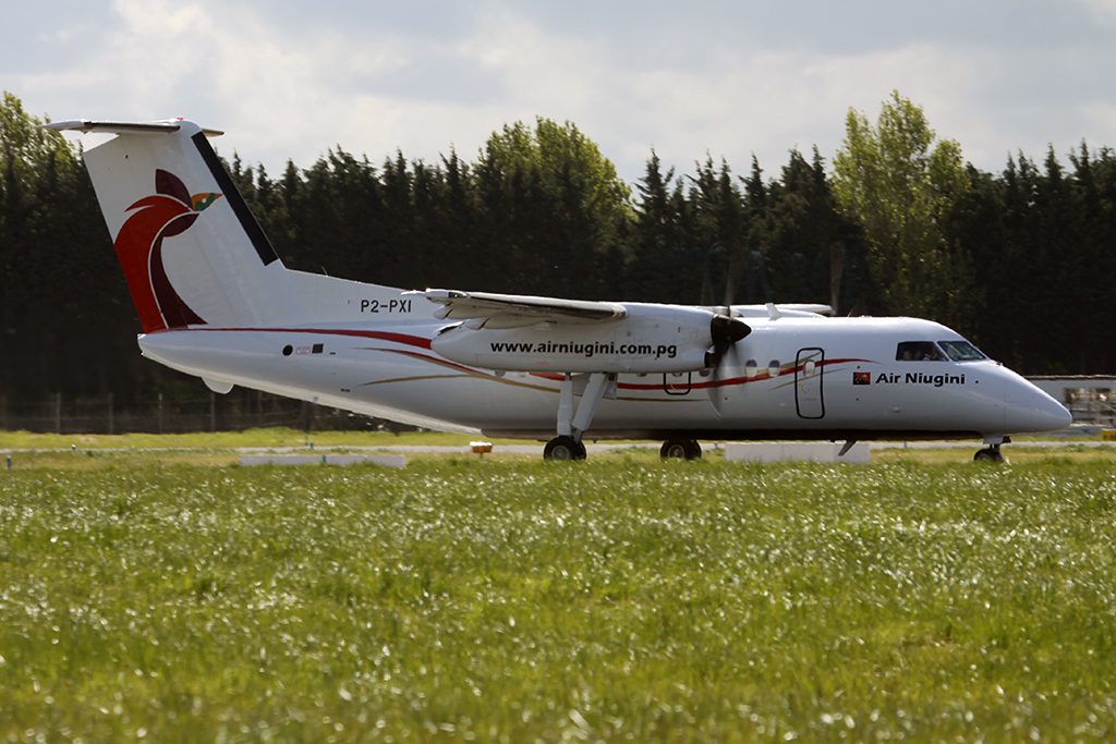 P2-PXI DHC-8 Air Niugini Nice delivery this morning caught departing for Milan Shannon 12 May 2012